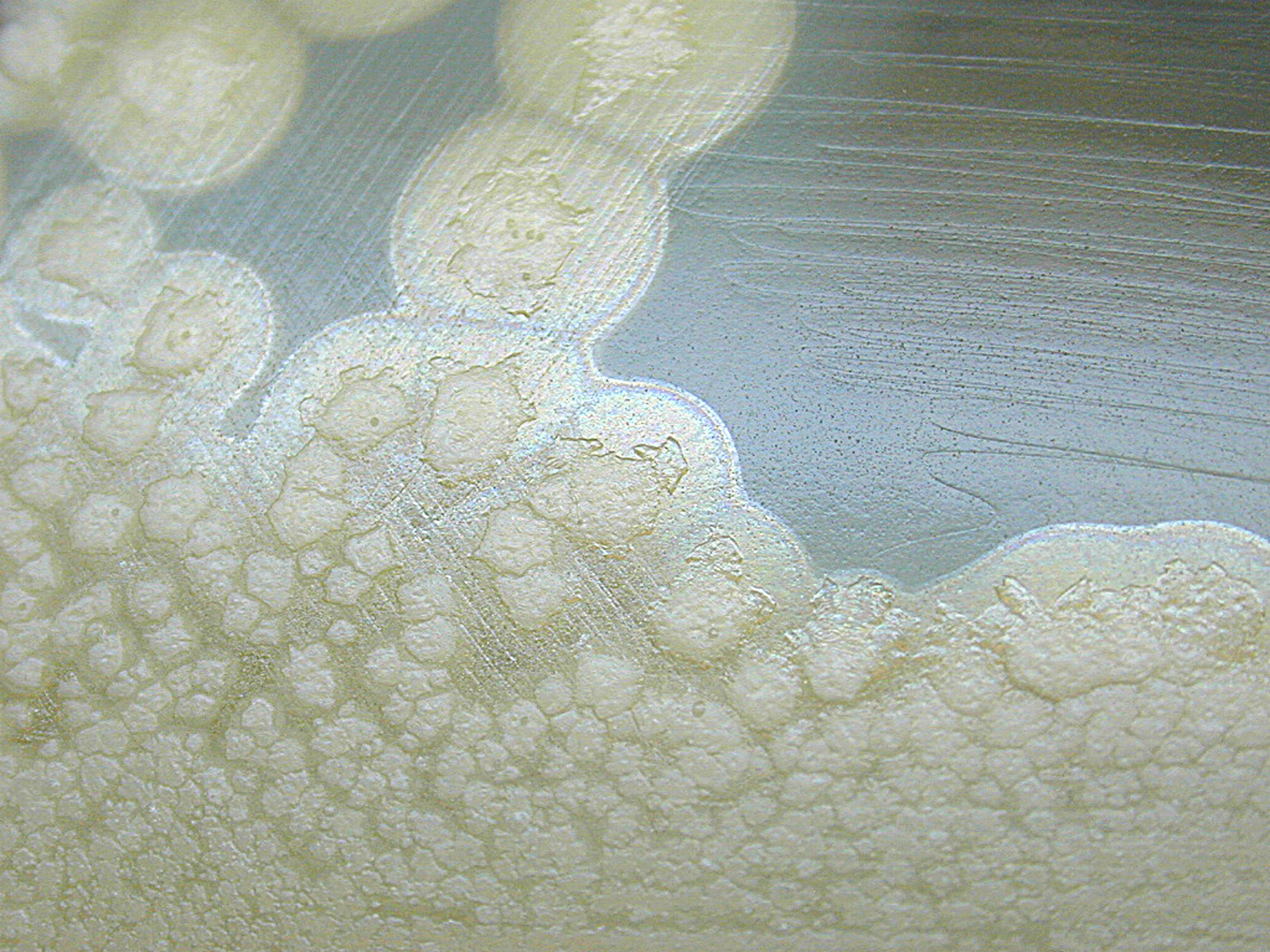 Clostridium botulinum growing on egg yolk agar showing the lipase reaction after 72 hours of incubation. C. botulinum is a strictly anaerobic bacterium that when grown on egg yolk agar, its colonies will exhibit a lipase reaction, described as the shiny area around each colony.